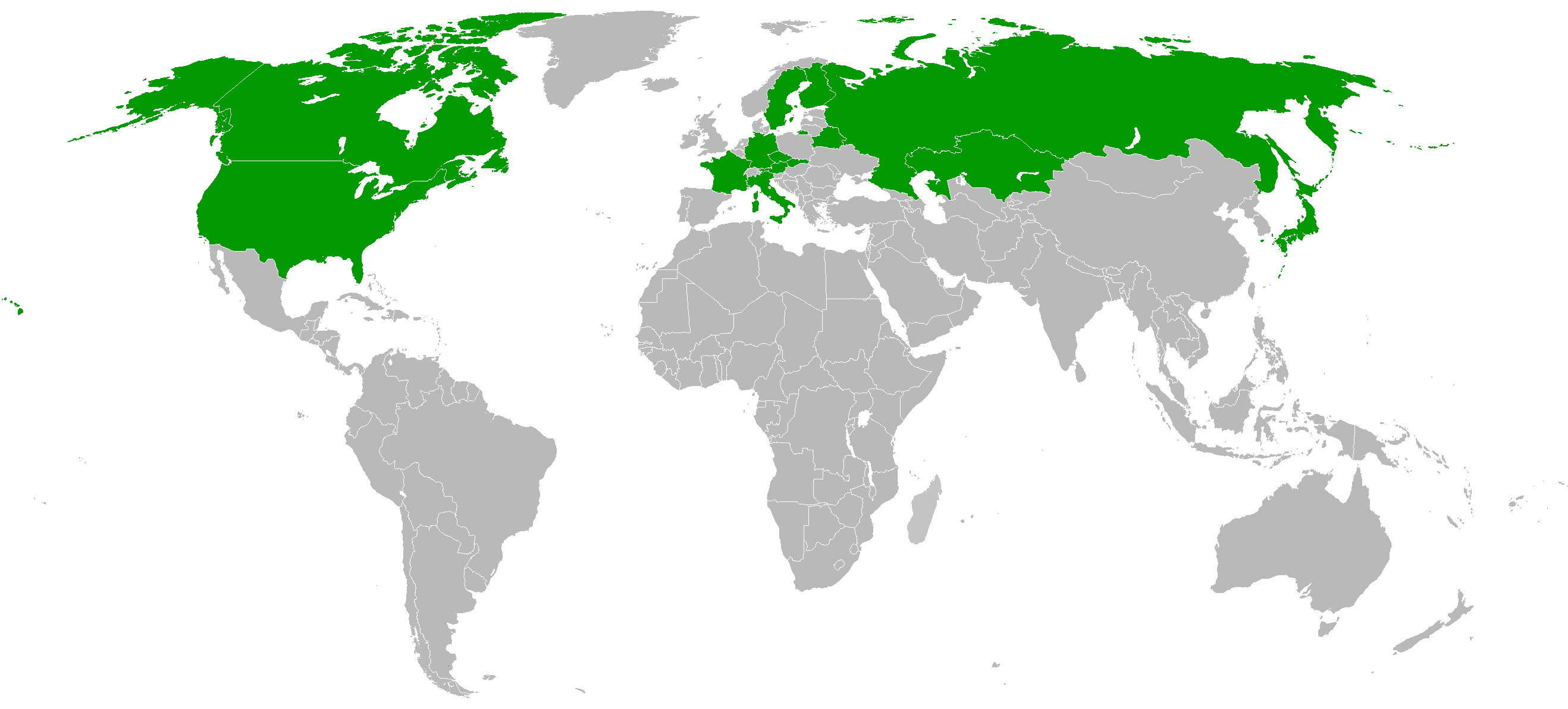 Participants - Ice hockey at the 1998 Winter Olympics.